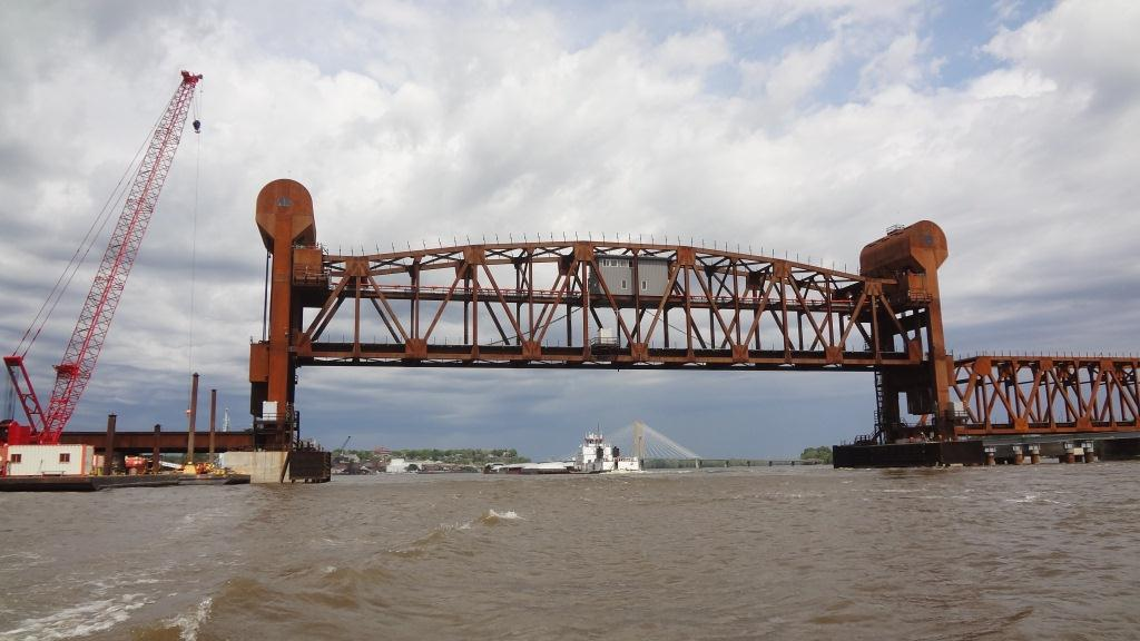 This is a photo of the lift span at Burlington Iowa, in the open position.